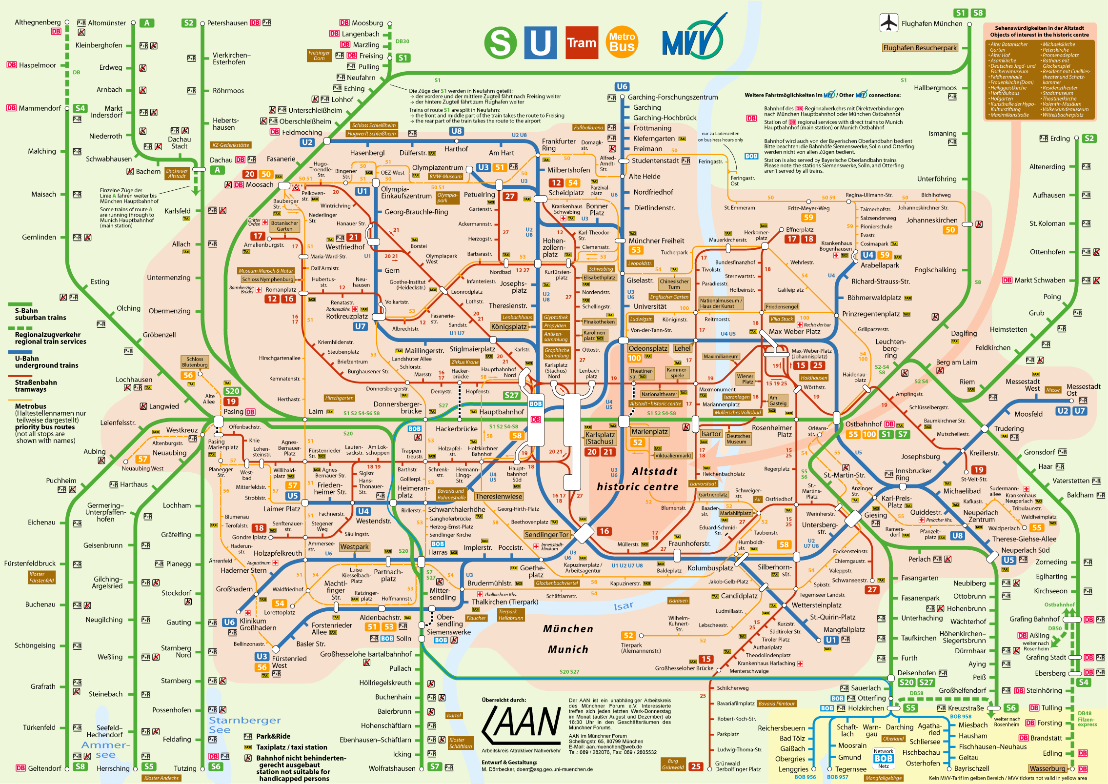 Munich's Public Transport Network 2006